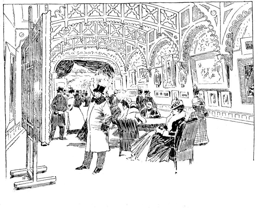 Blanch Konstsalong was an art gallery in Stockholm Sweden around 1900.